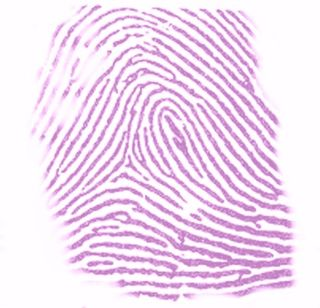 this figure shows how ninhydrin stains a finger print to make it visible